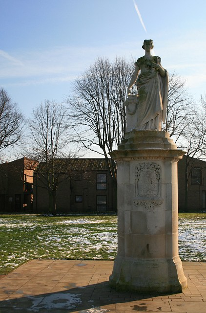 Beeston War Memorial For the fallen of the Boer War. The Two World Wars of the 20th century are commemorated at the other side of the town